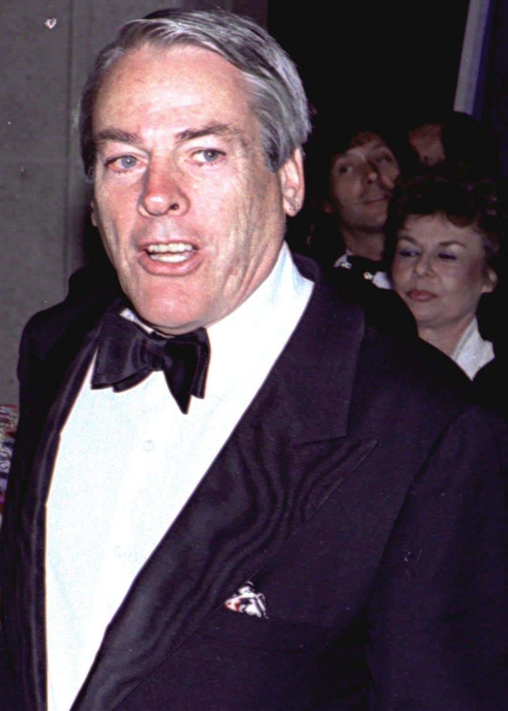 Kevin McCarthy at the Filmex Tribute to Elixabeth Taylor, Dorothy Chandler Pavilion, November 1981. NOTE: Permission granted to copy, publish, broadcast or post any of my photos, but please credit "photo by Alan Light" if you can. Thanks.